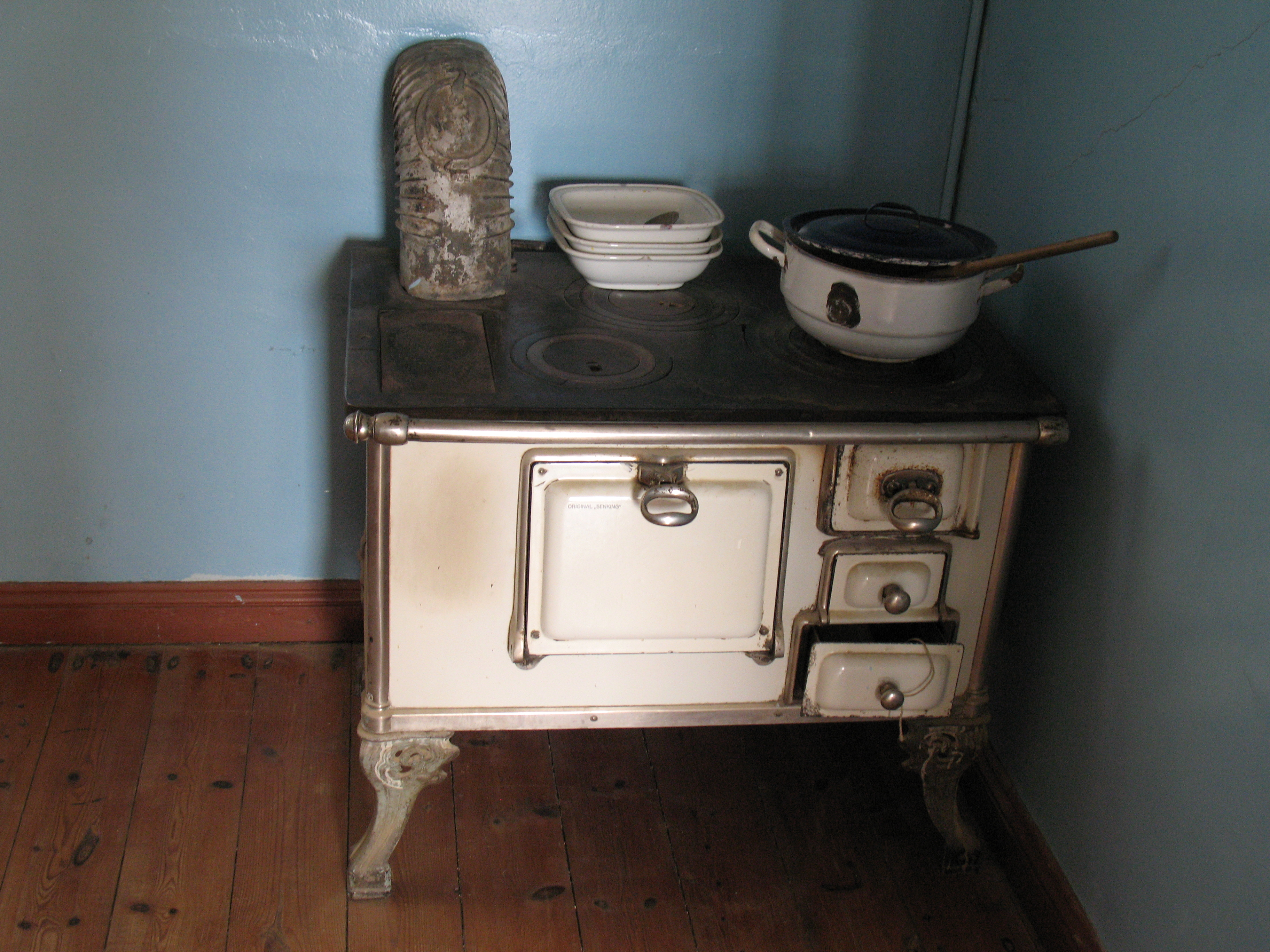 Original Senking stoven from 1920, kolmannskuppe, Namibia